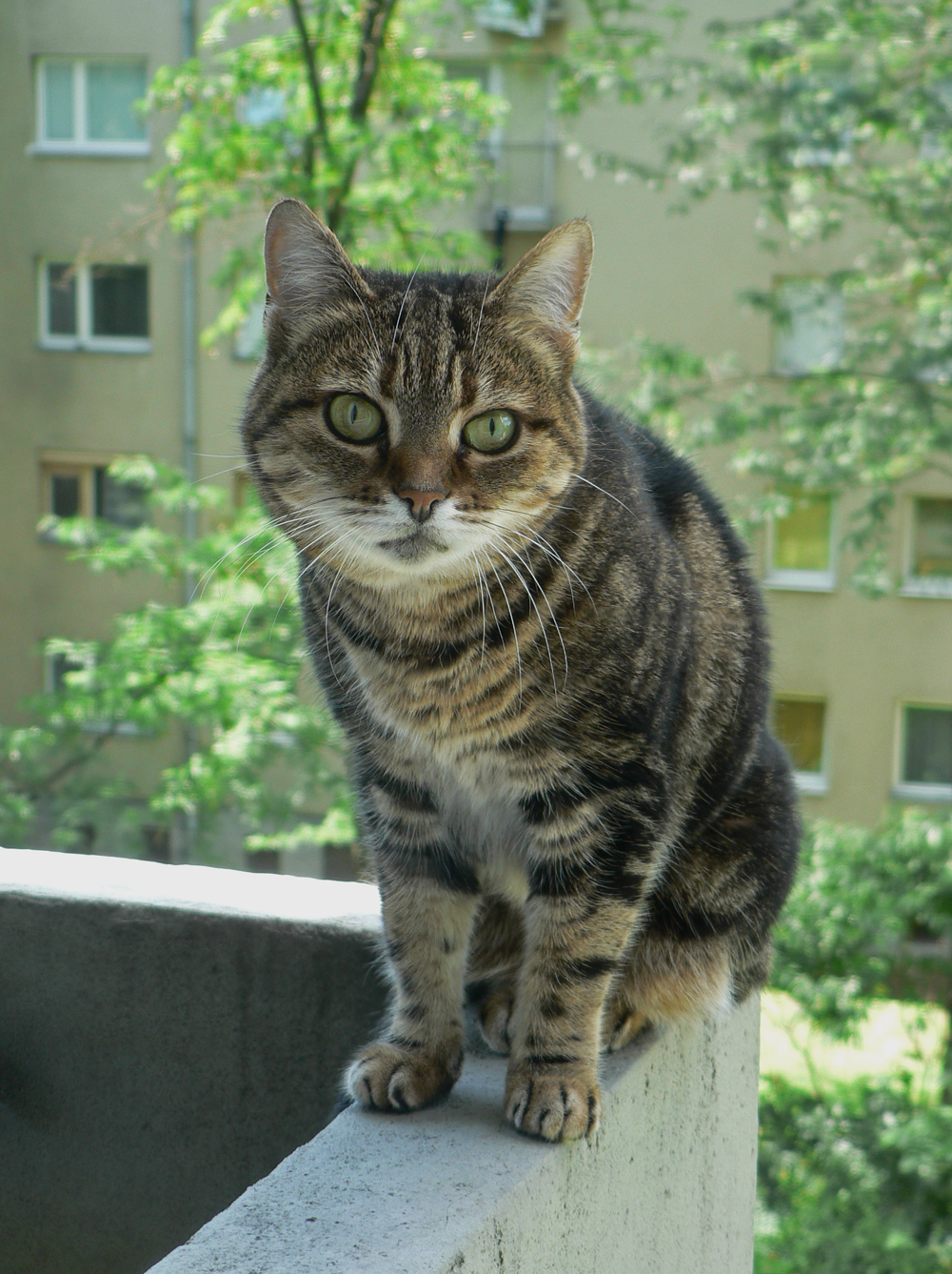 Bajci, Slovenian female cat from Ljubljana